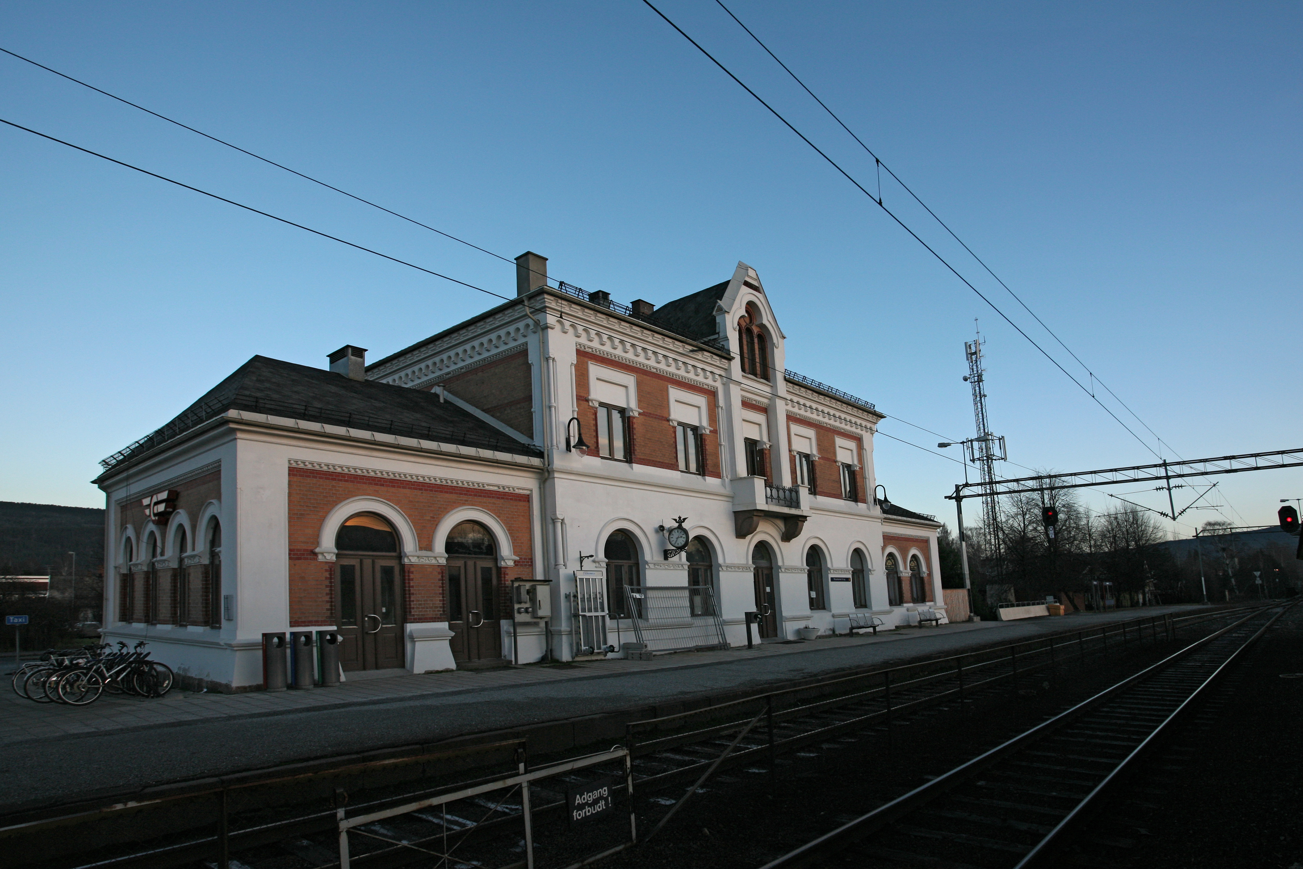 Picture of Hokksund Railway Station, main building